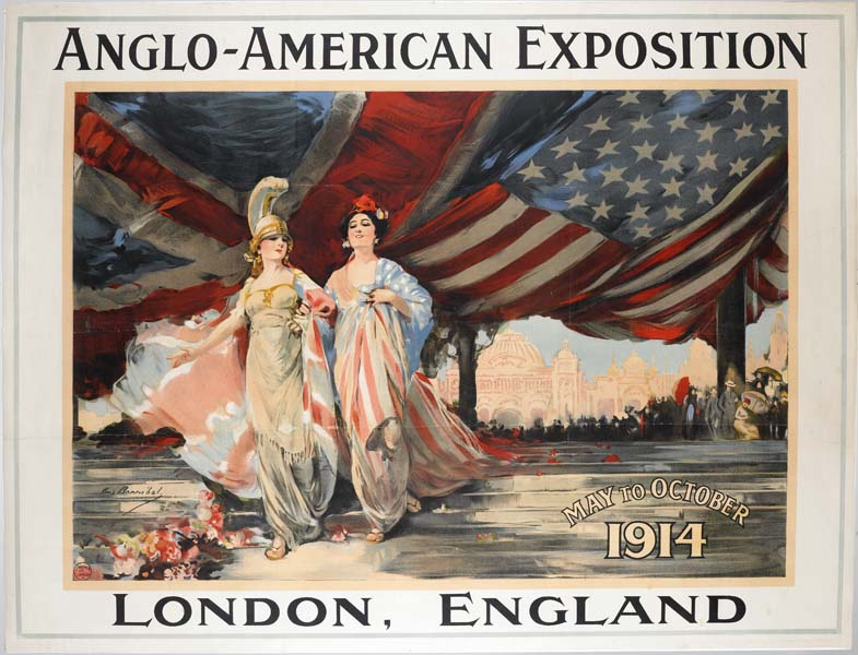 Photograph of a poster for the Anglo-American Exposition at White City, 1914